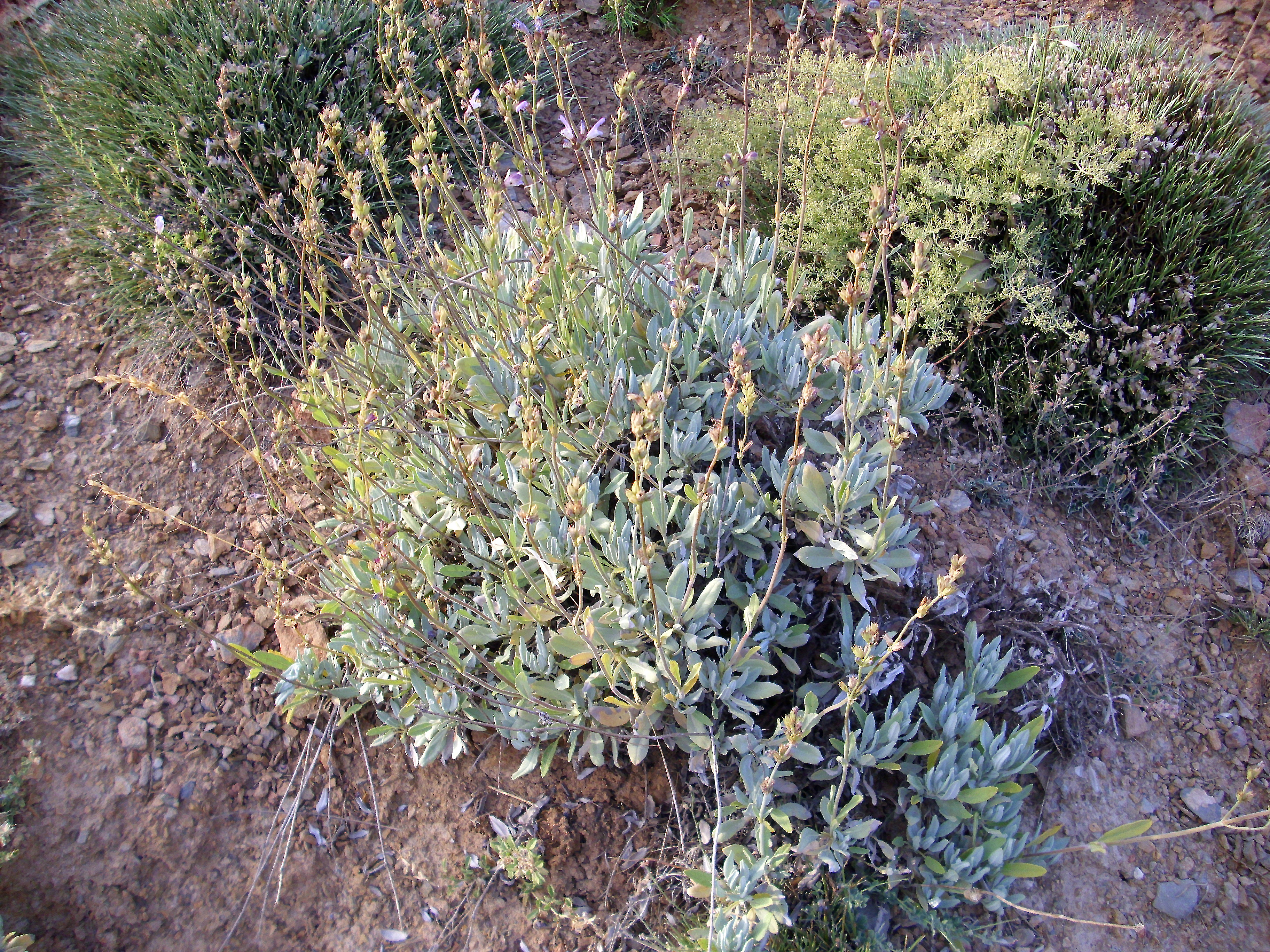 Salvia oxyodon habit, Sierra Nevada, Spain